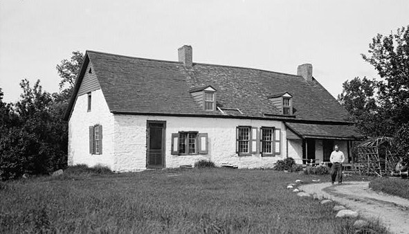 Benjamin Ten Broeck House, Flatbush, Kingston vicinity (Ulster County, New York) cropped This file comes from the Historic American Buildings Survey (HABS), Historic American Engineering Record (HAER) or Historic American Landscapes Survey (HALS). These are programs of the National Park Service established for the purpose of documenting historic places. Records consist of measured drawings, archival photographs, and written reports. When reusing please credit: Library of Congress, Prints & Photographs Division, NY,56-KING.V,6-1 This tag does not indicate the copyright status of the attached work. A normal copyright tag is still required. See Commons:Licensing for more information. This work is in the public domain in the United States because it is a work prepared by an officer or employee of the United States Government as part of that person’s official duties under the terms of Title 17, Chapter 1, Section 105 of the US Code. See Copyright. Note: This only applies to original works of the Federal Government and not to the work of any individual U.S. state, territory, commonwealth, county, municipality, or any other subdivision. This template also does not apply to postage stamp designs published by the United States Postal Service since 1978. (See § 313.6(C)(1) of Compendium of U.S. Copyright Office Practices). It also does not apply to certain US coins; see The US Mint Terms of Use. This file has been identified as being free of known restrictions under copyright law, including all related and neighboring rights.